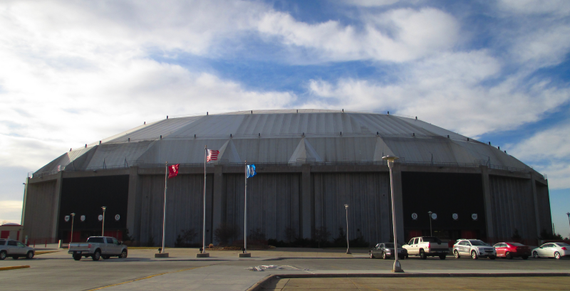 The University of South Dakota's athletic complex (DakotaDome). A picture facing west of the side of the dome with the southeast entrance on the left and northeast entrance on the right. The dome is home to a variety of USD athletic programs.